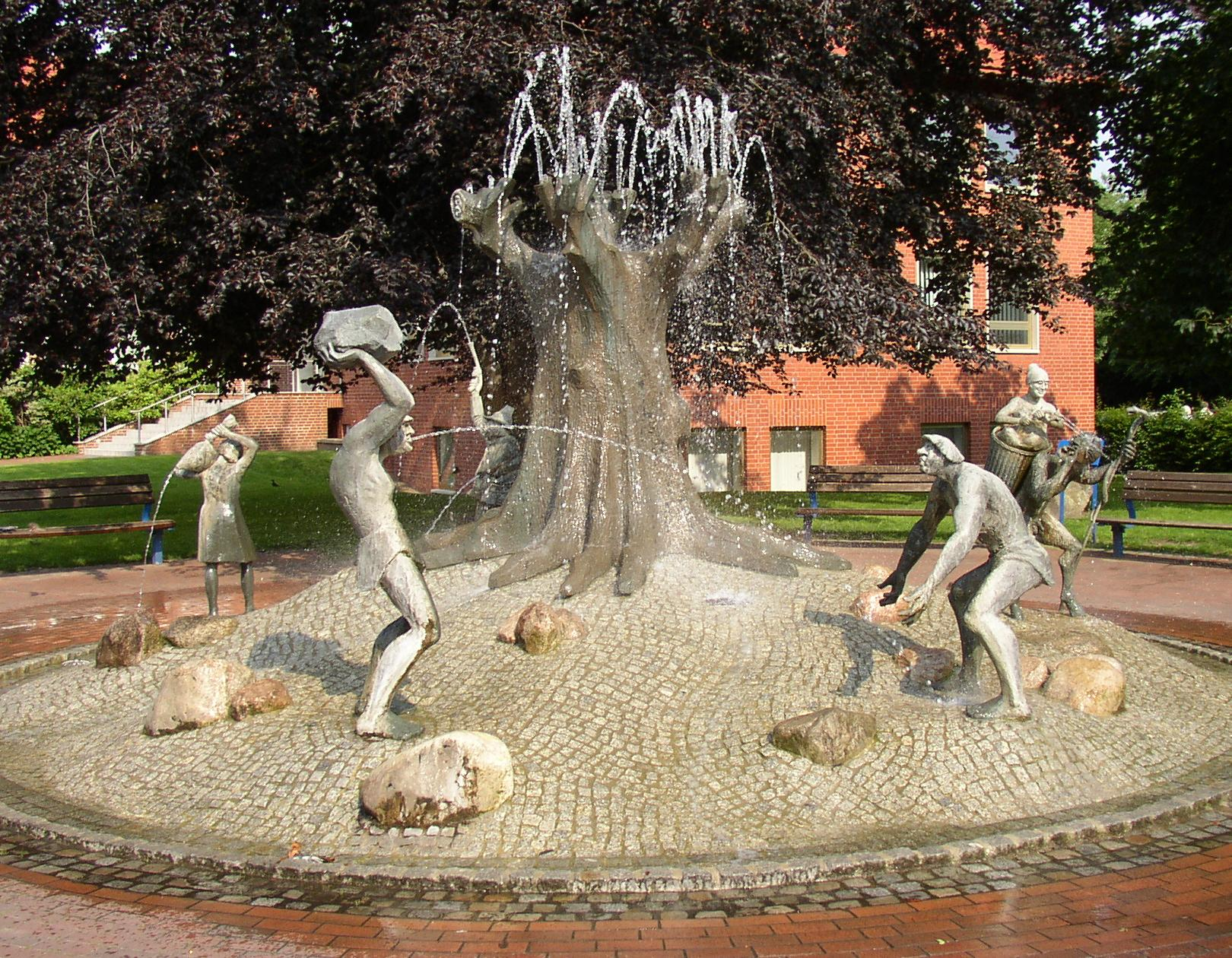 Fountain by Frijo Müller-Belecke in Schneverdingen in Lower Saxony, Germany